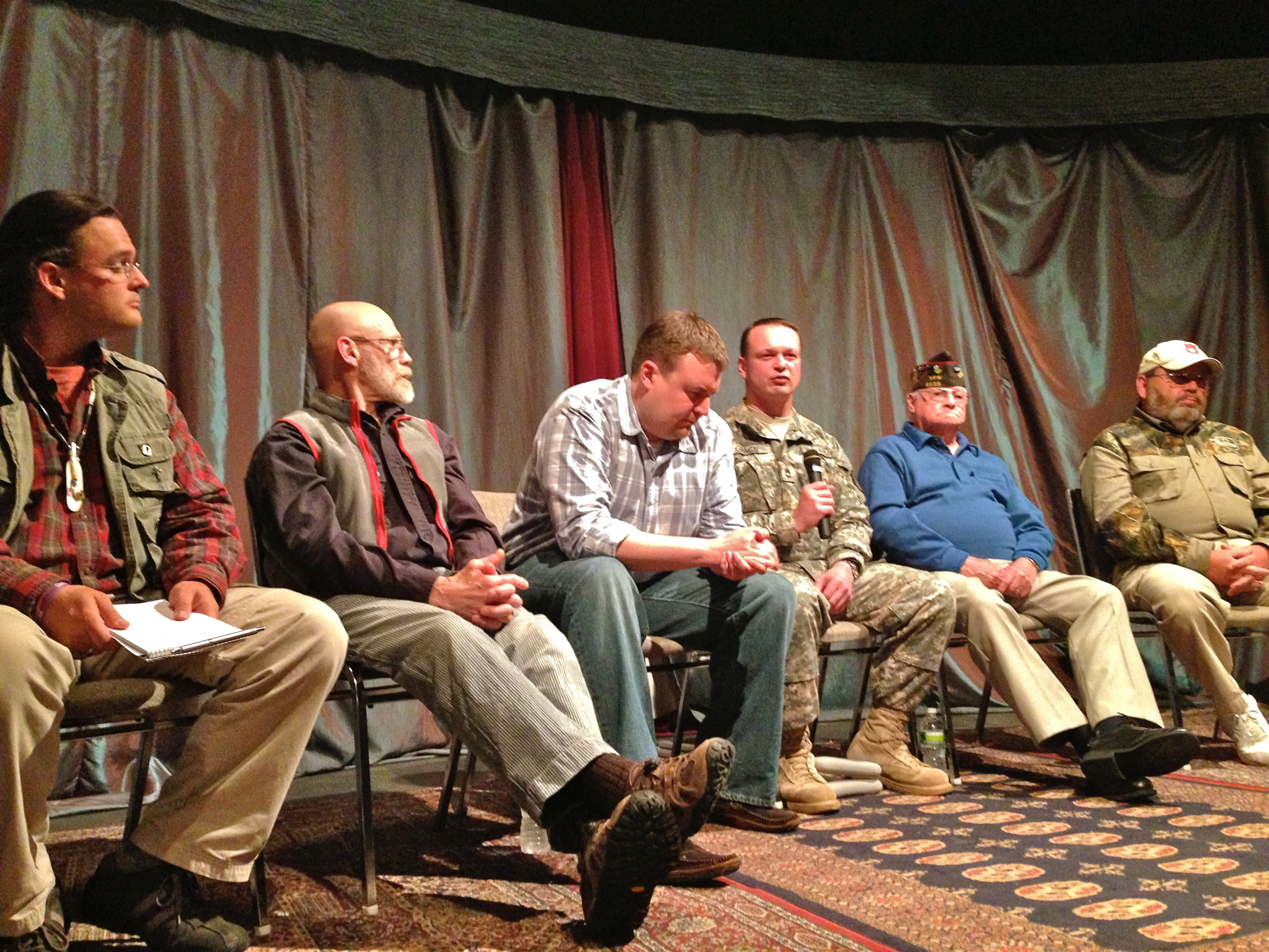 Vets in ATWH